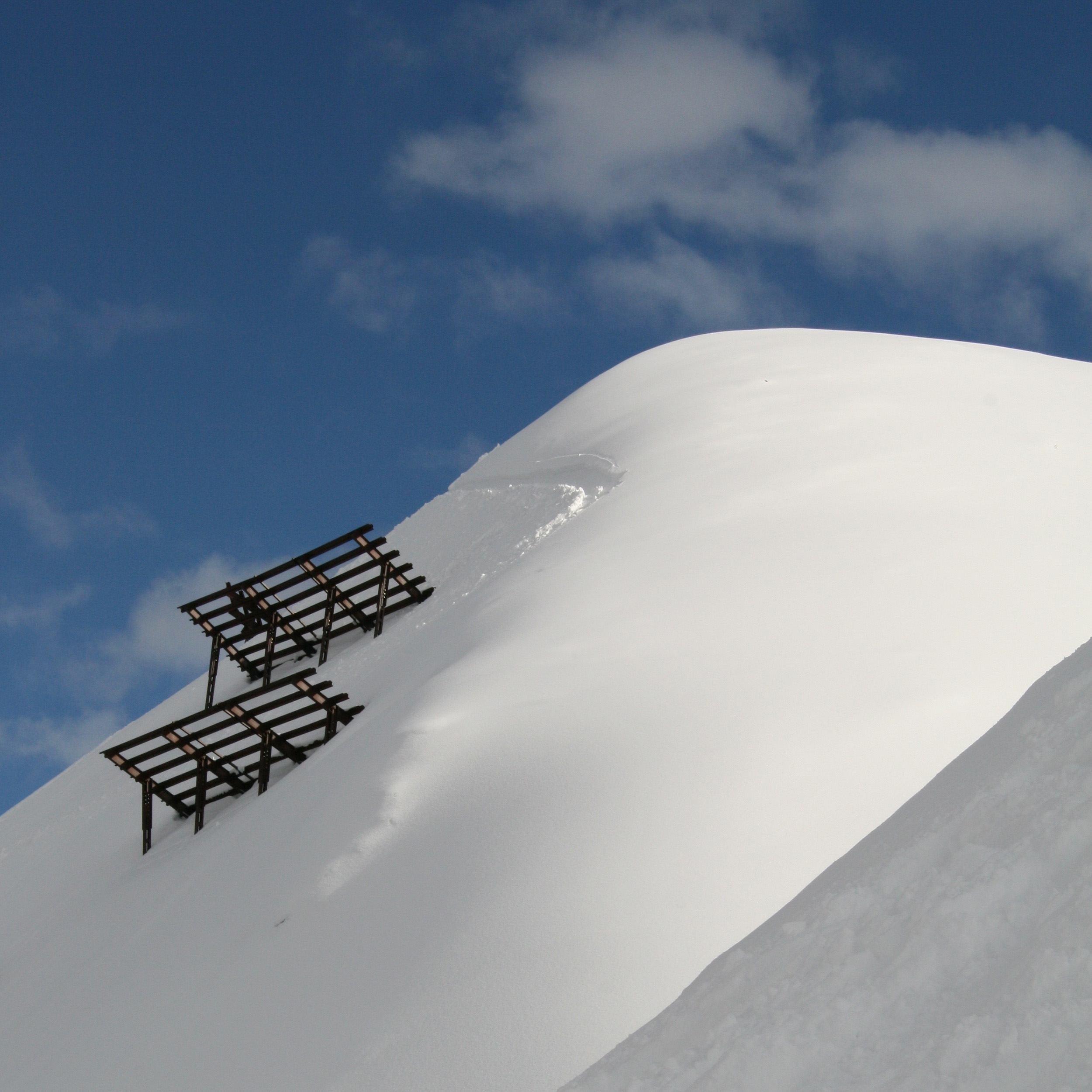 Avalanche control above the top station Versettlabahn in the ski resort of Montafon Silvretta Nova in Vorarlberg.